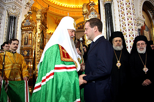 CATHEDRAL OF CHRIST THE SAVIOUR, MOSCOW. At the enthronement ceremony for Kirill, the Patriarch of Moscow and All Russia.